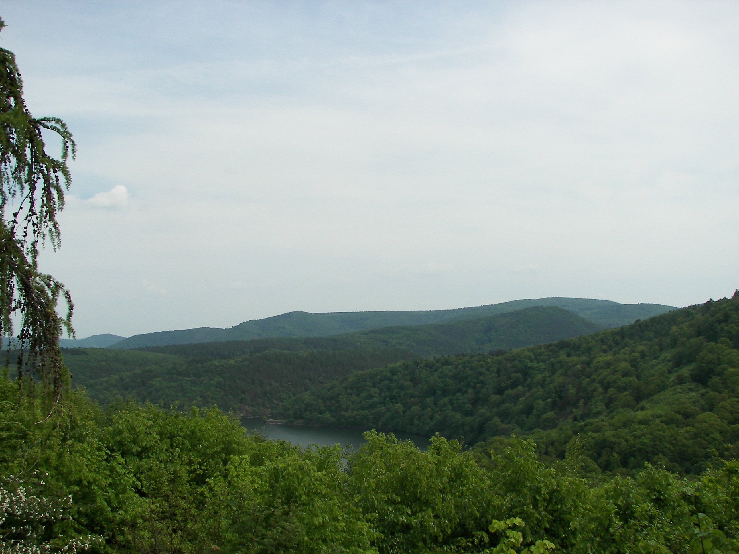 Kellerwald - View from the Ringsberg in Direction Southeast, Hesse, Germany